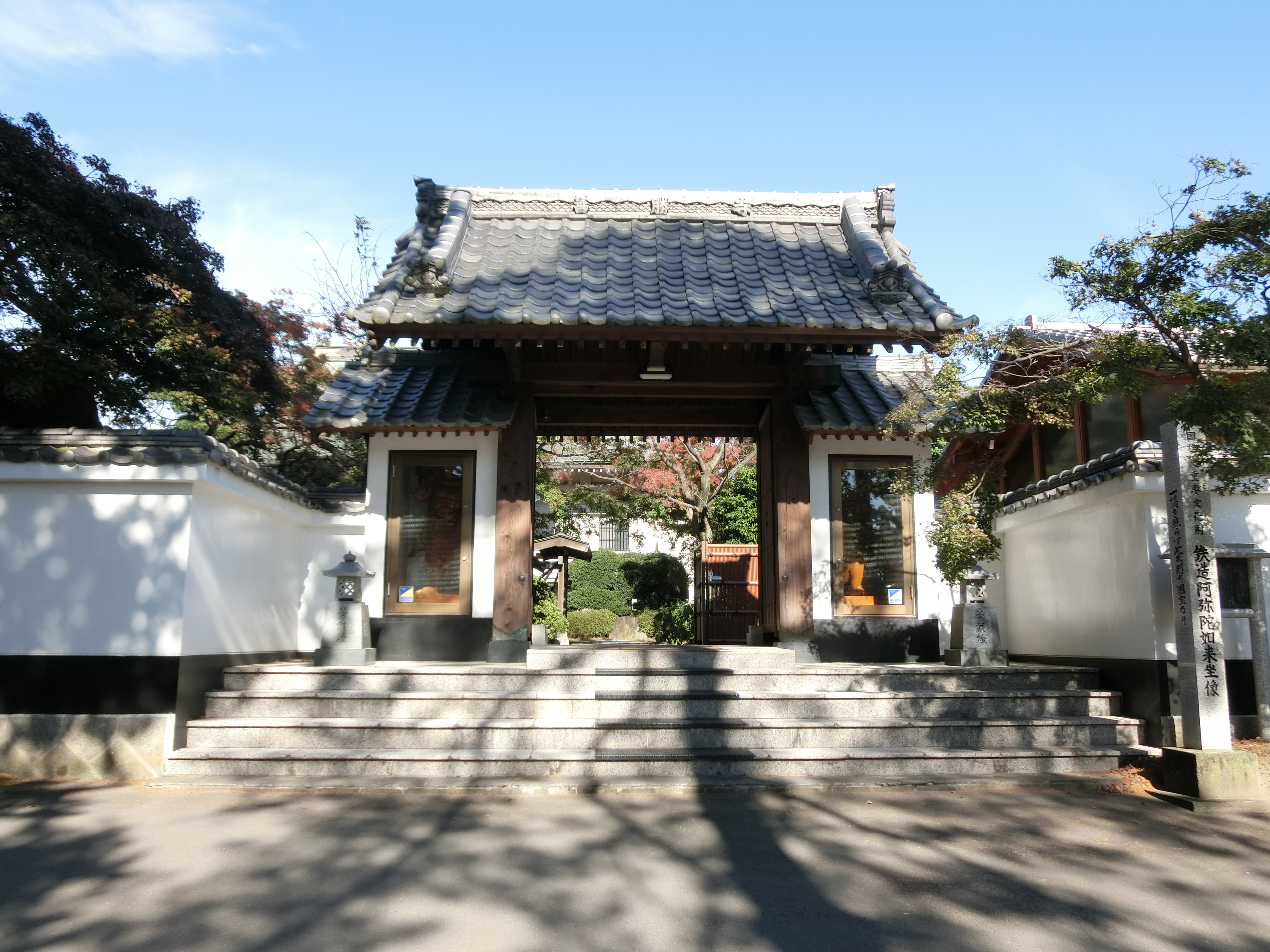 Zensho-ji (Maebashi)